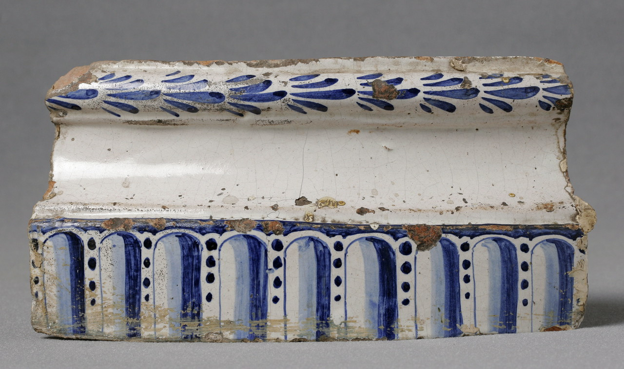 FÖREMÅLKakelugn.INVENTARIENUMMER: 6891 Stadsmuseet i Stockholm